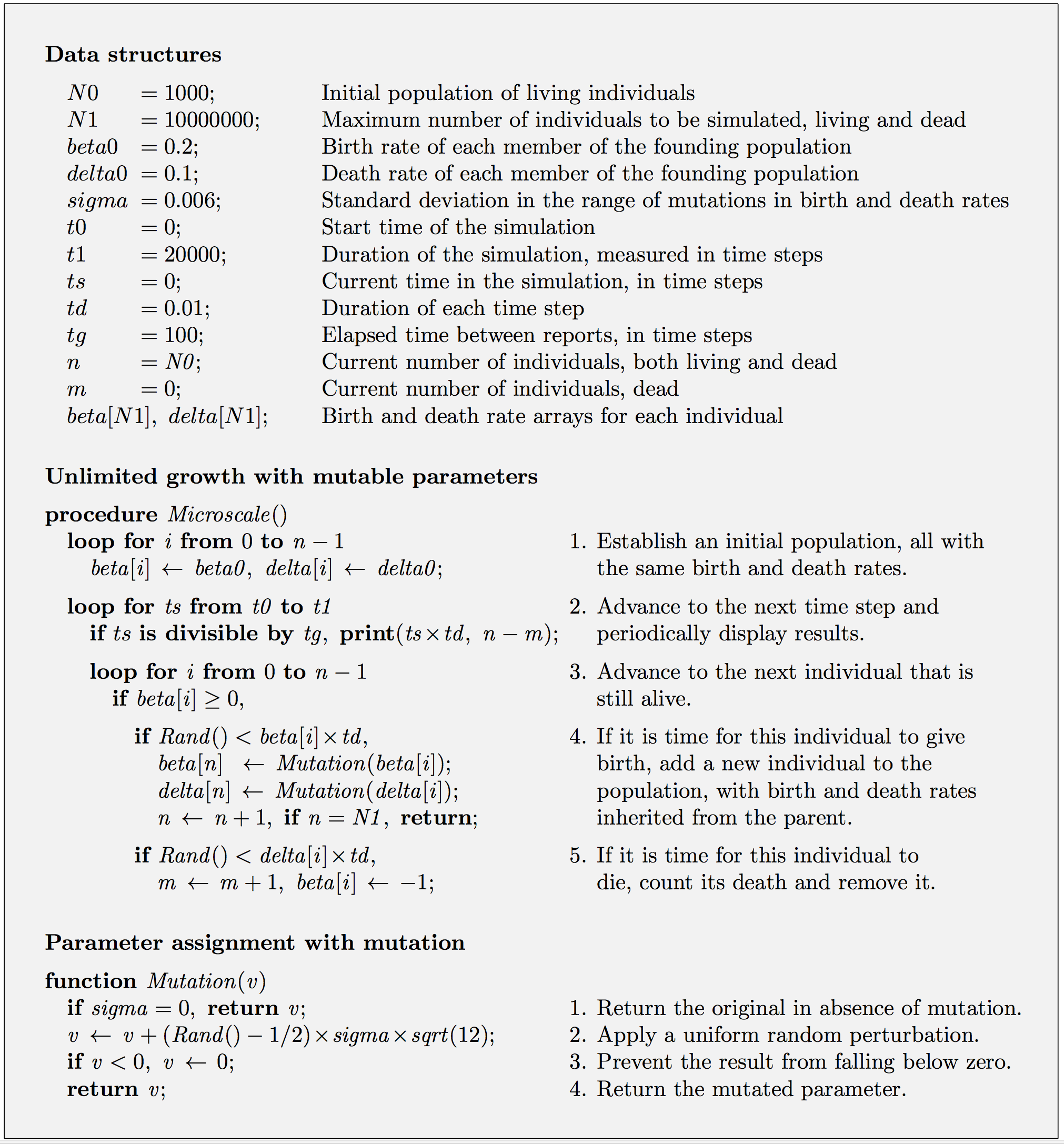 Microscale algorithm in for population growth with mutation in an unlimited environment, showing complete pseudocode and data structures.